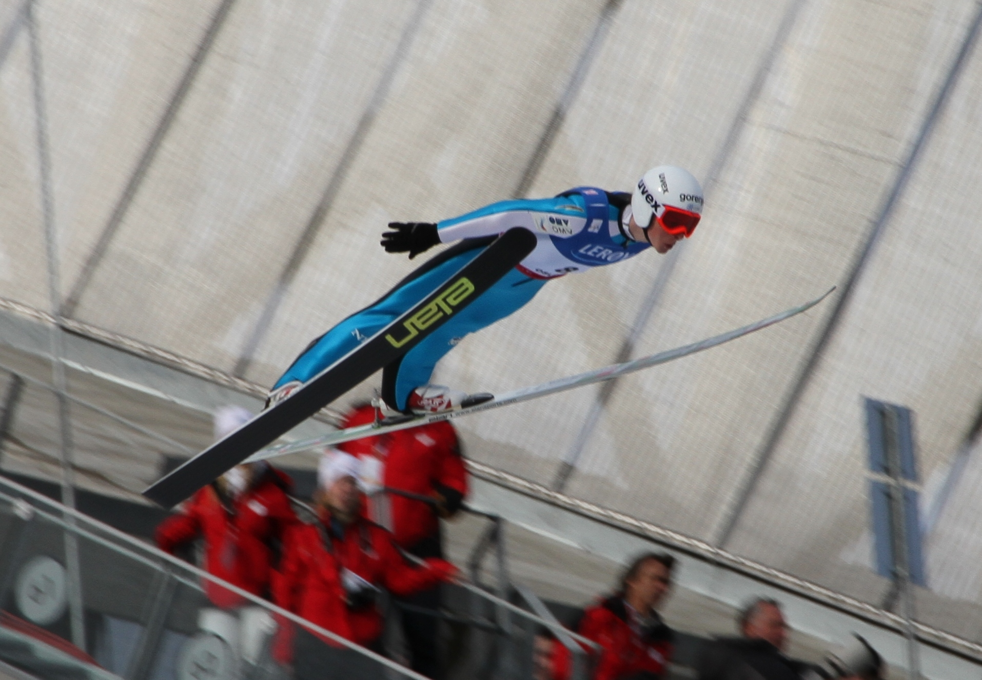 Holmenkollen, Oslo. FIS World Cup Ski Jumping, first round. March 11, 2012. This was the third last WC tournament of the season